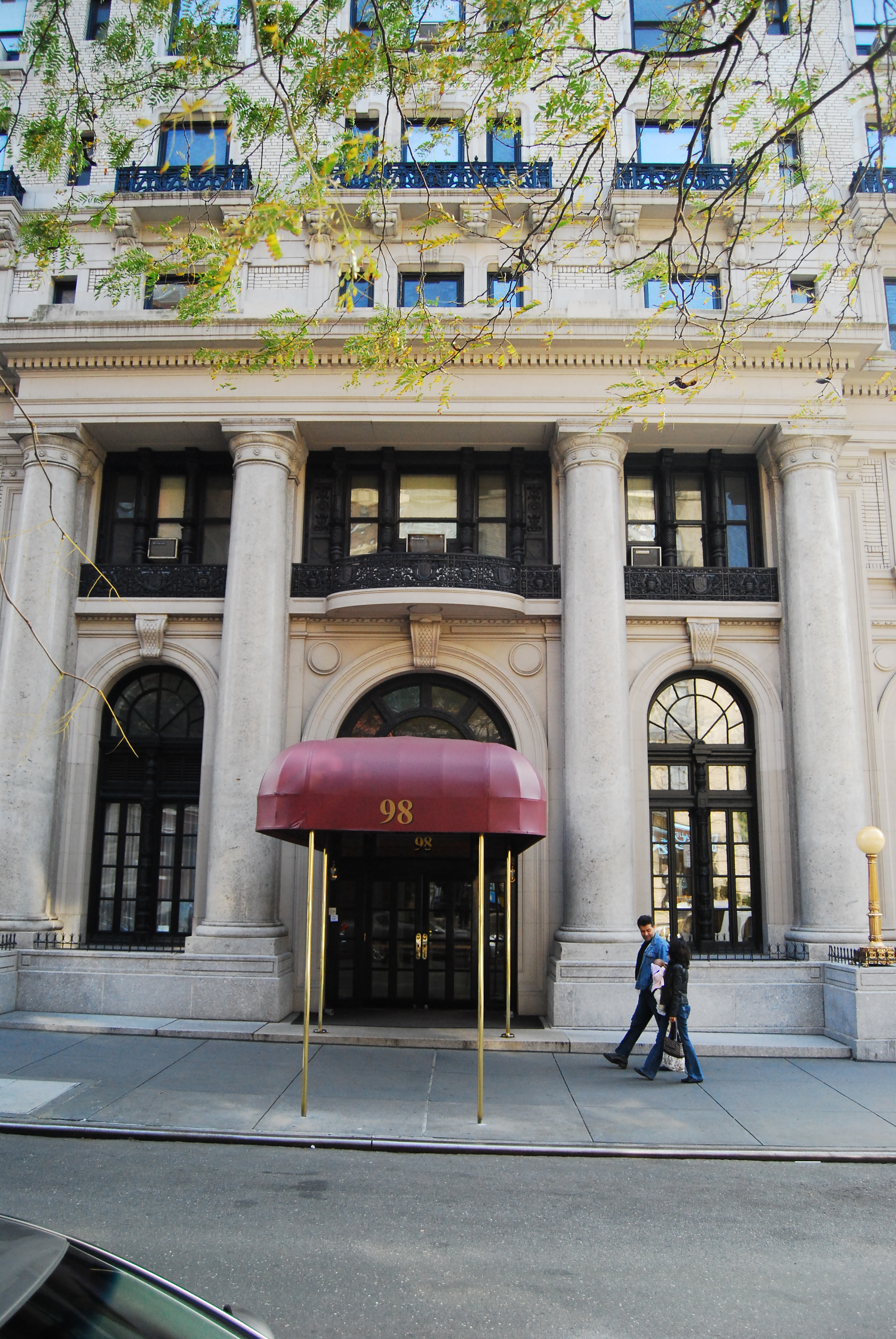 This photo is of Wikis Take Manhattan goal code J20, Hotel Bossert.